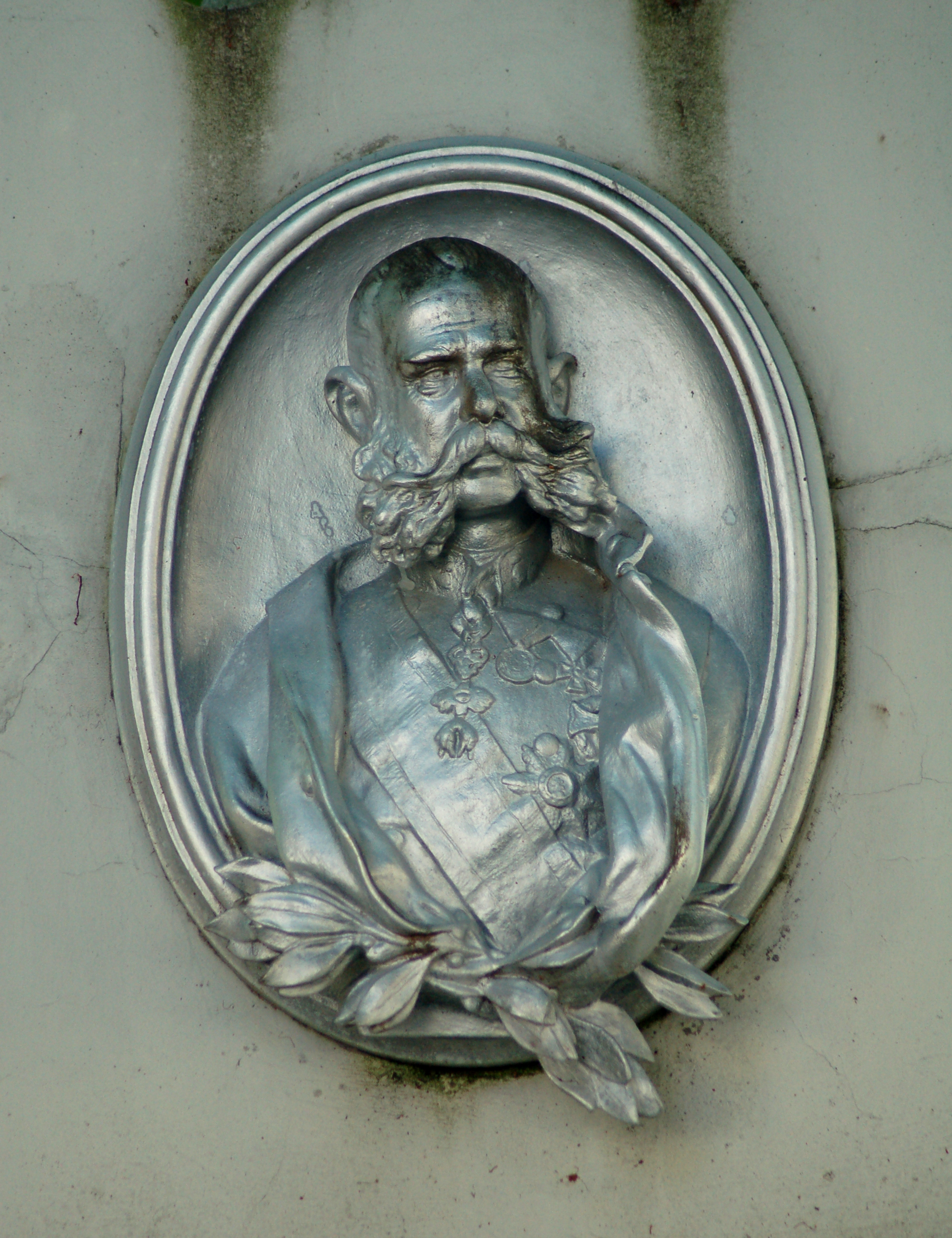 Monument remembering the 60th anniversary of Emperor Franz Joseph I's inthronisation in 1908. Krumau am Kamp, Lower Austria. It is a cultural heritage monument.